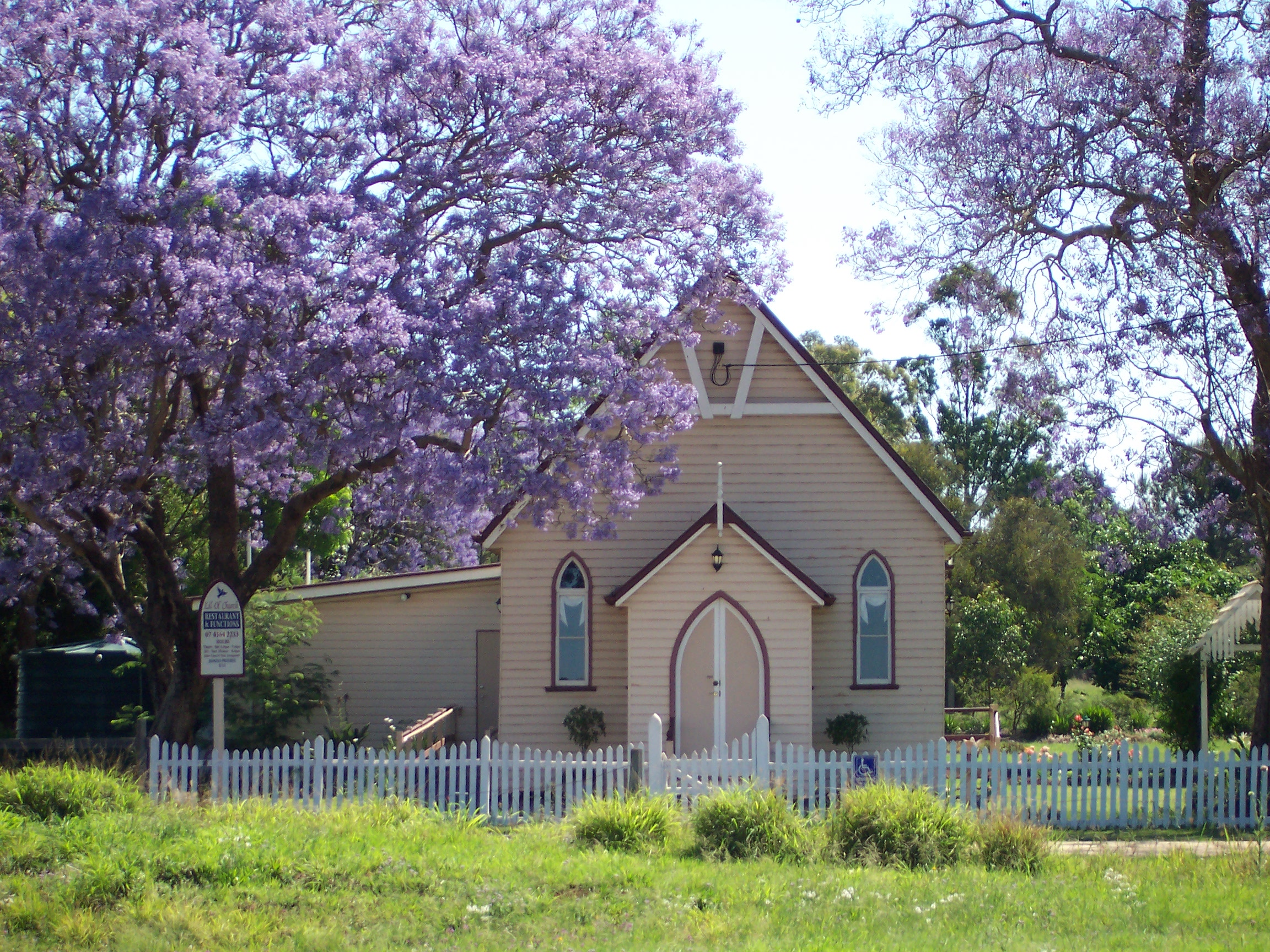 old church in Wooroolin, Australia framed by jacarandas in bloom. Photograph taken by User:Rossrs, October 22, 2005